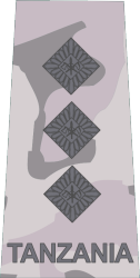 Captain (Tanzania Army OF-02